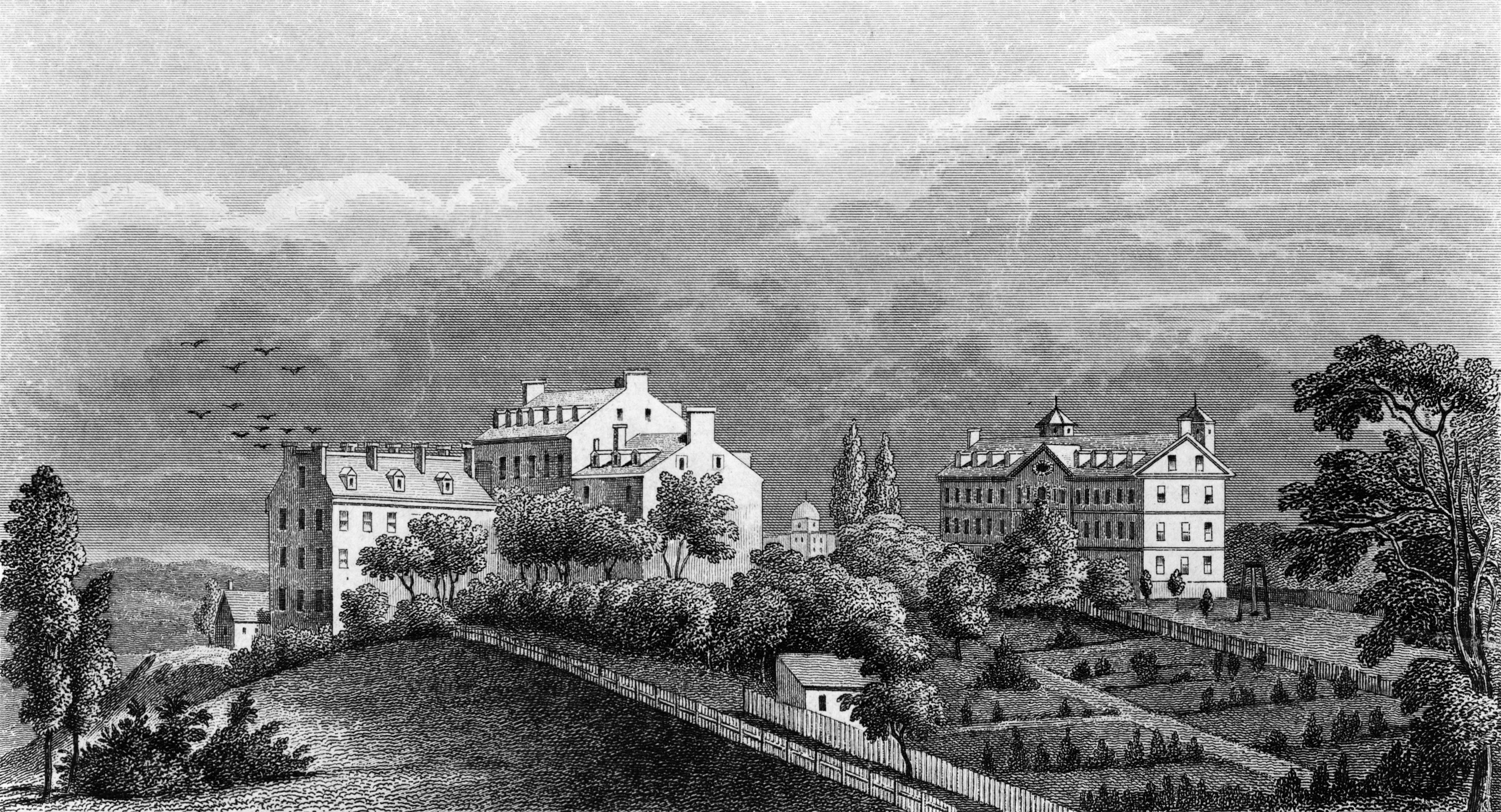 Engraving of Georgetown College campus from after the Gervase Building was completed in 1848 but before Old South was demolished in 1854.